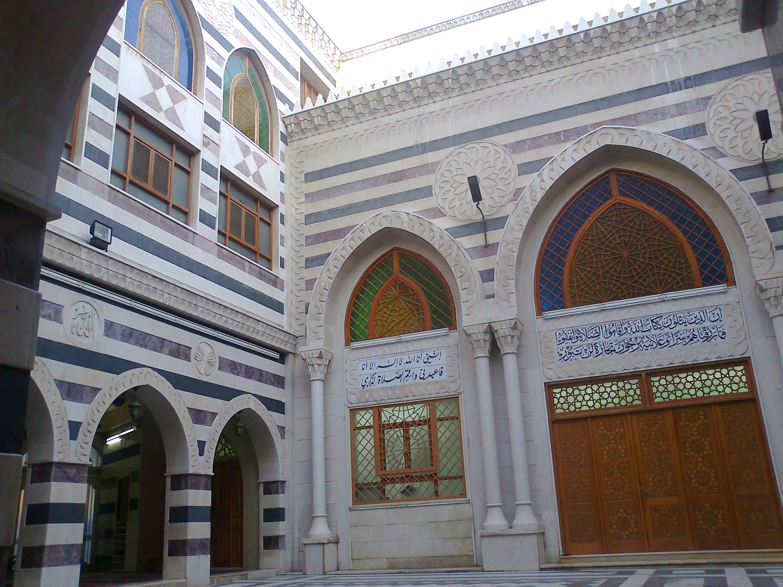 Manjek Mosque, Midan District, Damascus Syria